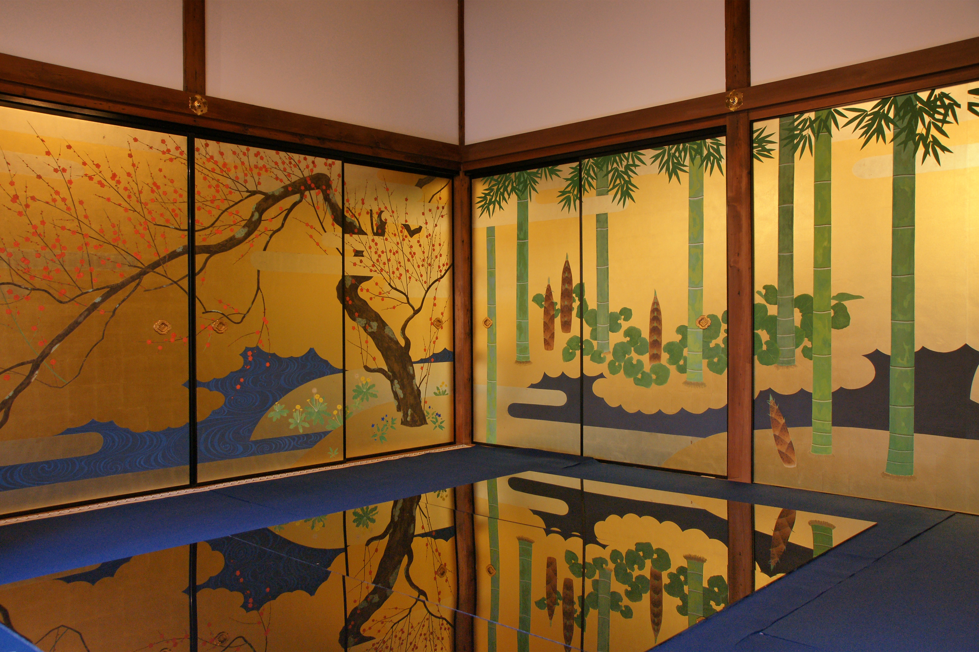 Entokuin in Higashiyama-ku, Kyoto, Kyoto Prefecture, Japan